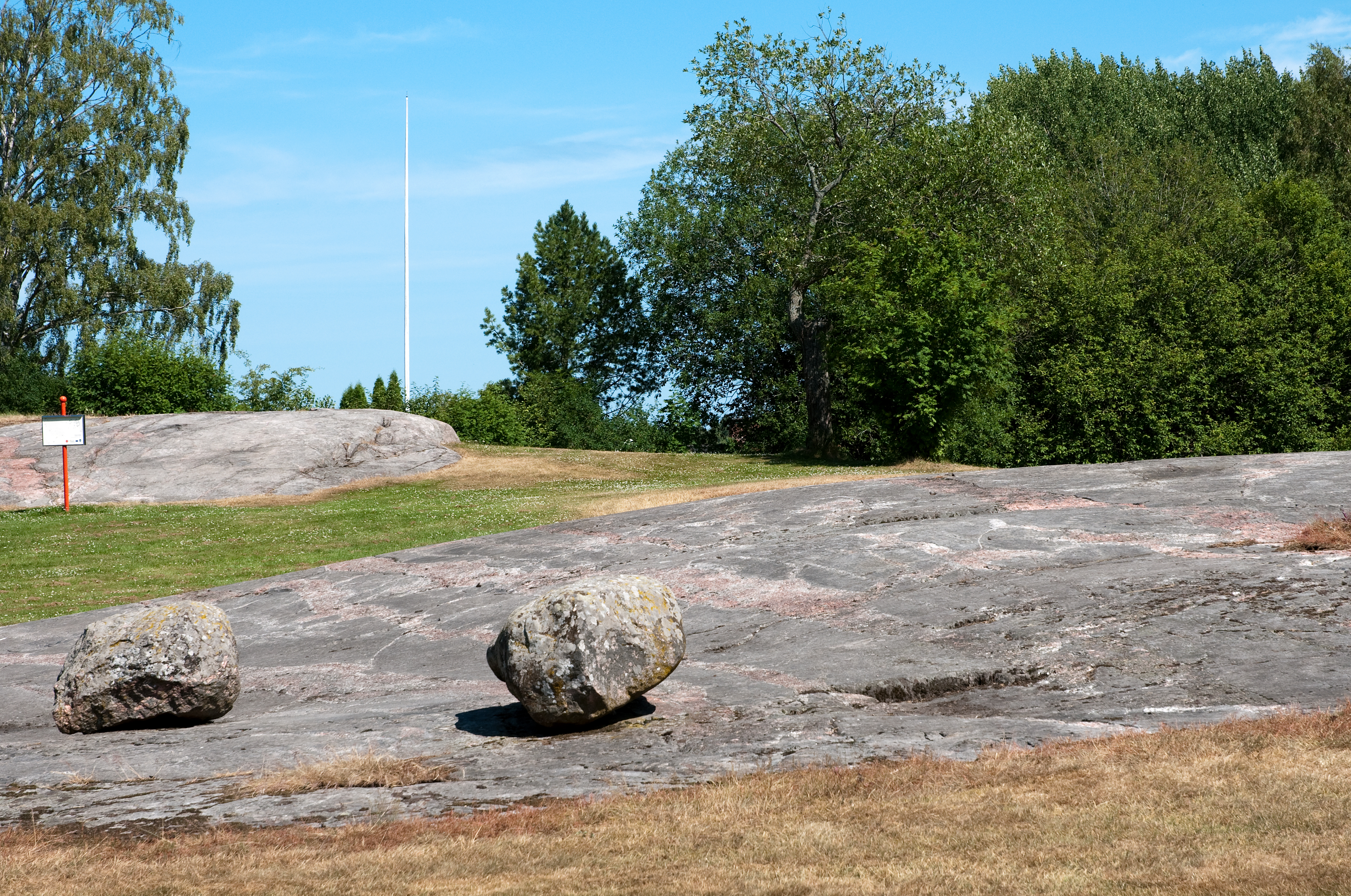 Flat rocks with petroglyphs at Släbro in Nyköping